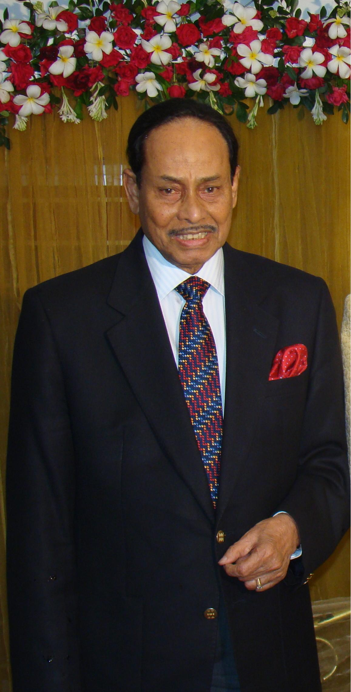 Bangladeshi former President Hussain Muhammad Ershad at a wedding ceremony in 2012.